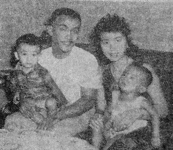 Indonesian actor Bing Slamet and his family